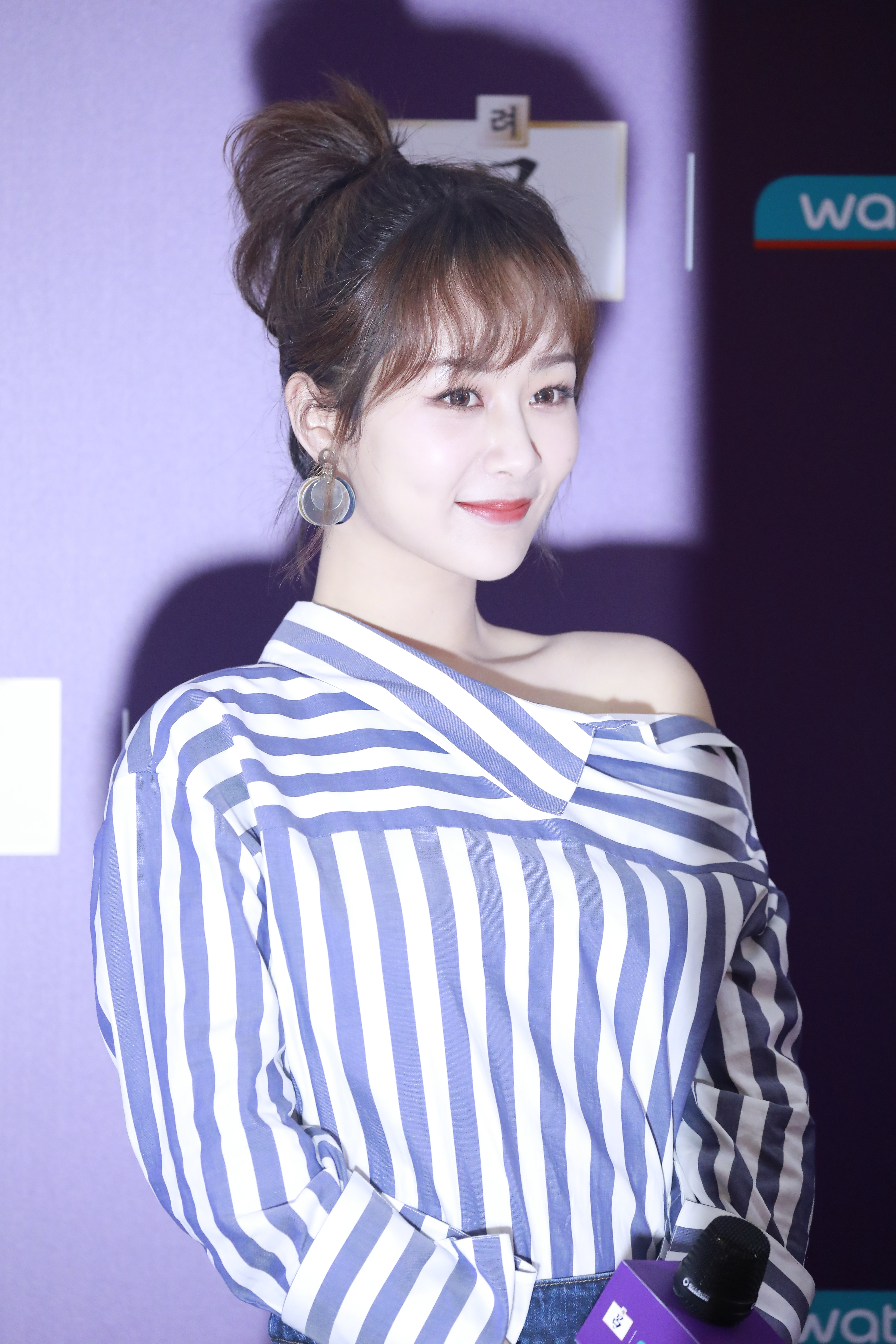 Yang Zi at Ryo band promotion, Wuhan of China, 12 April 2019